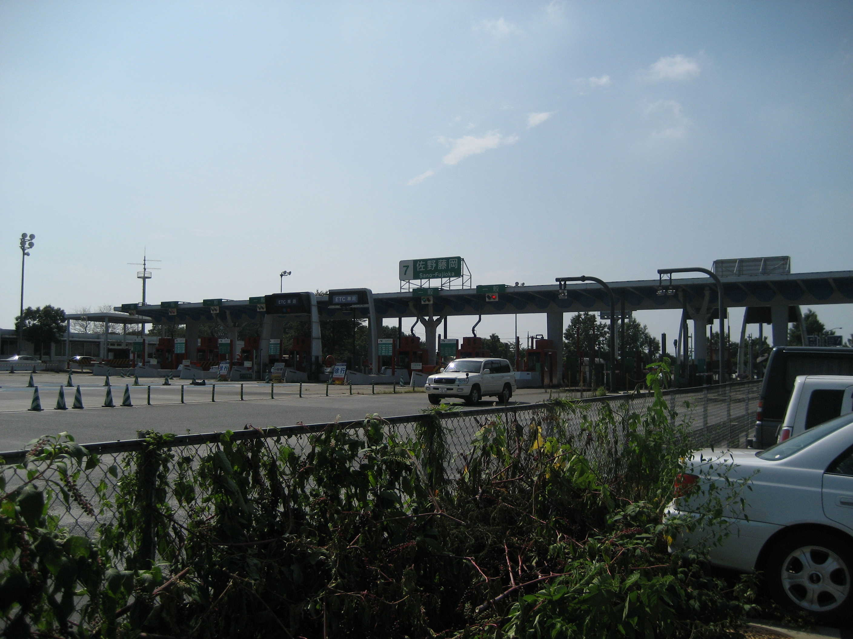 Toll gates at Sano-Fujioka Interchange on the Tohoku Expressway